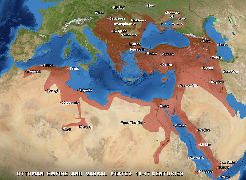 Map of the Ottoman Empire at its greatest extent, at the end of the 16th century (1600)